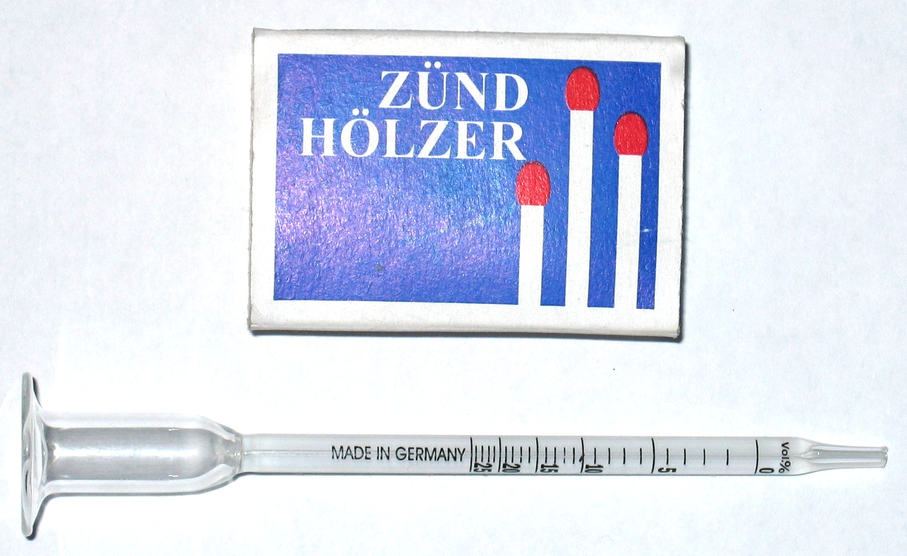 Vinometer (or vinometre), instrument for measuring the alcohol content of finished wine and similar clear liquors with low sugar and alcohol (up to 25% vol.) content.